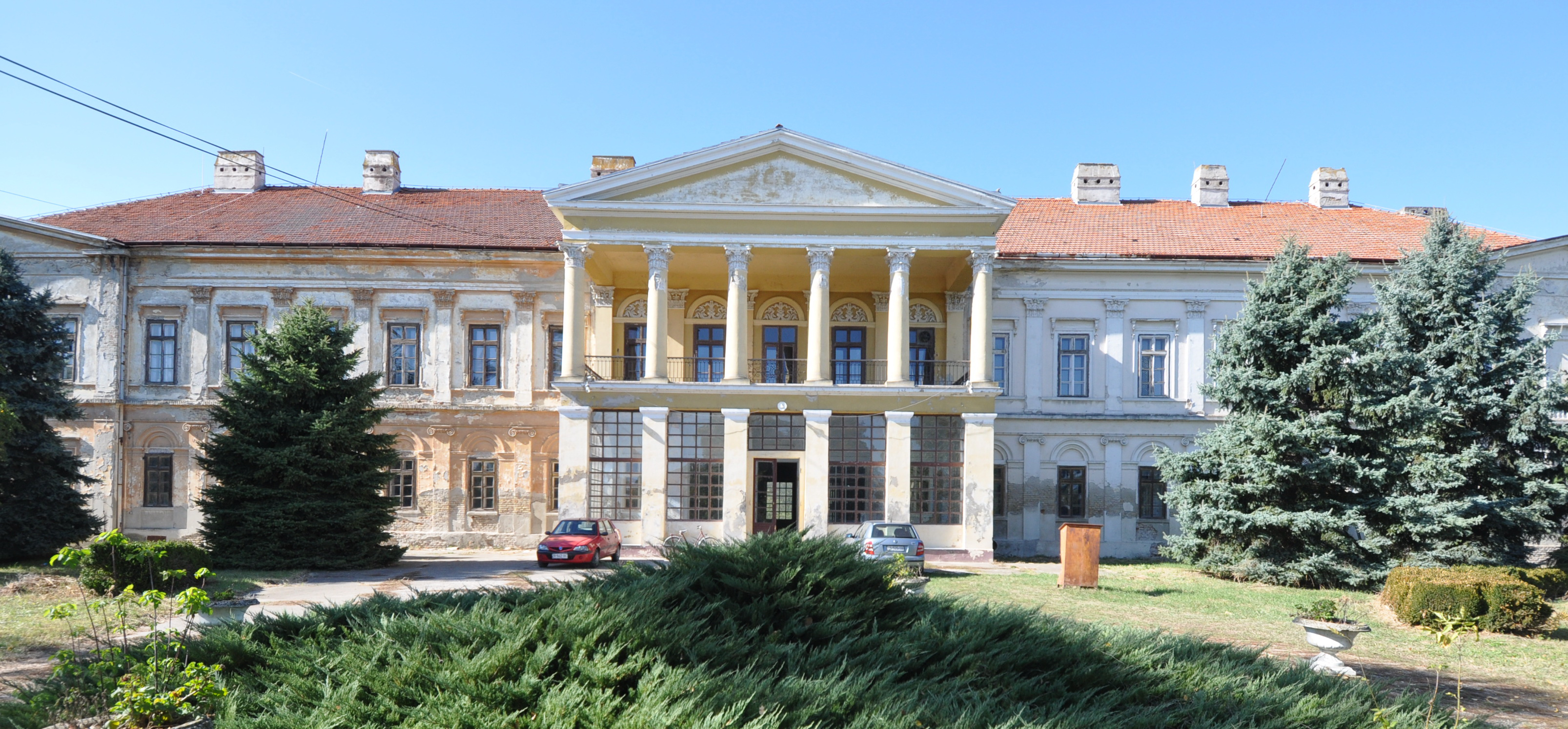 Karácsonyi Castle in Novo Miloševo - front view